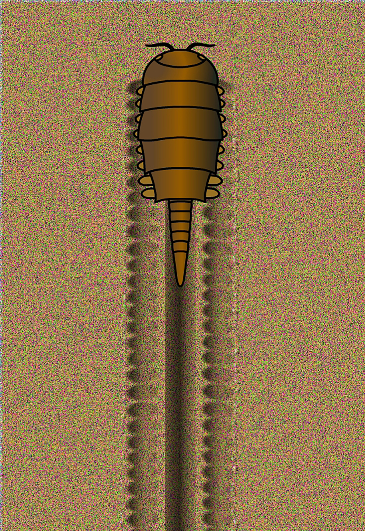 Conceptual drawing of the euthycarcinoid Mosineia making the trackway Protichnites; drawn by T.C. Gass; drawing originally published in K.C. Gass, 2015. Solving the Mystery of the First Animals on Land: The Fossils of Blackberry Hill. Siri Scientific Press, Manchester, UK.